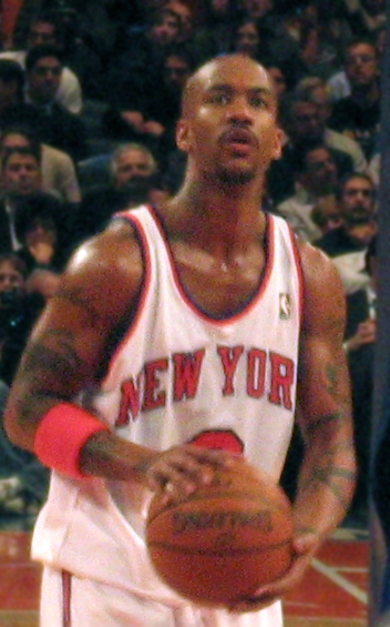 Stephon Marbury shoots a free throw at a Knicks home game on January 10, 2008.